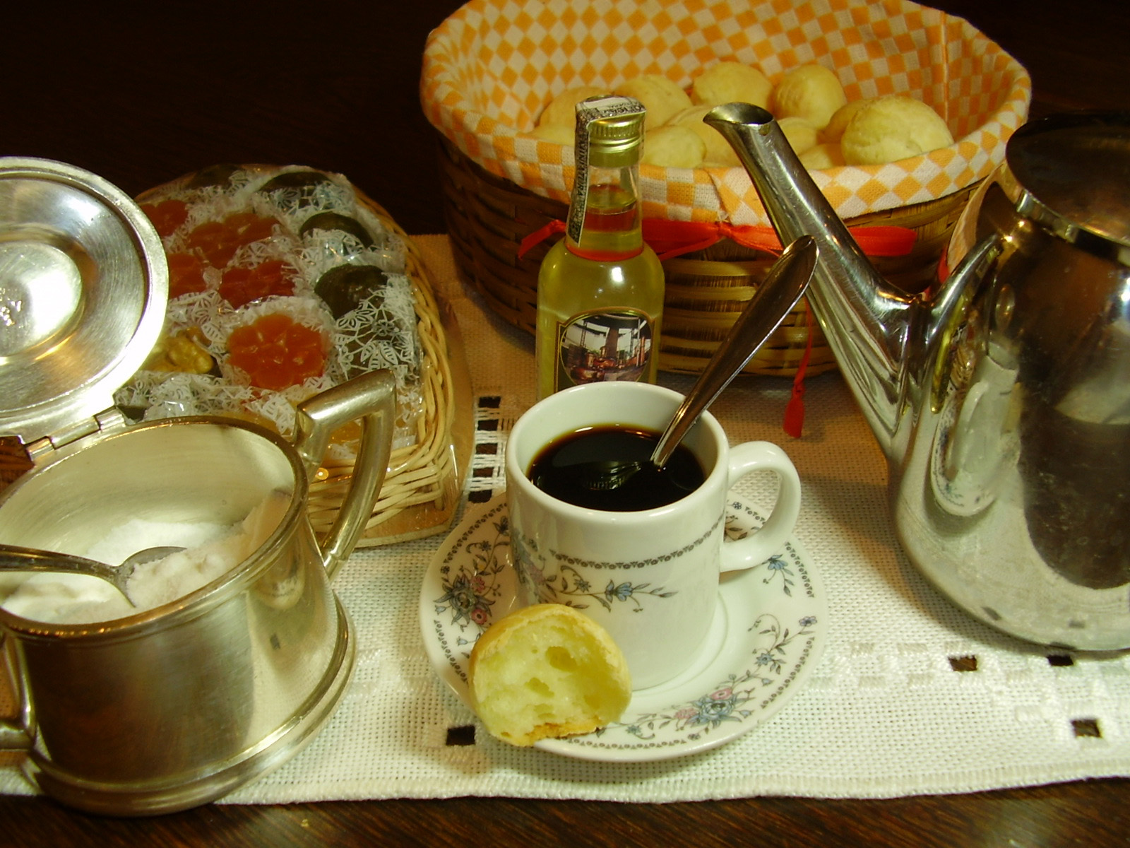 Traditional snack food from Minas Gerais, Brazil.